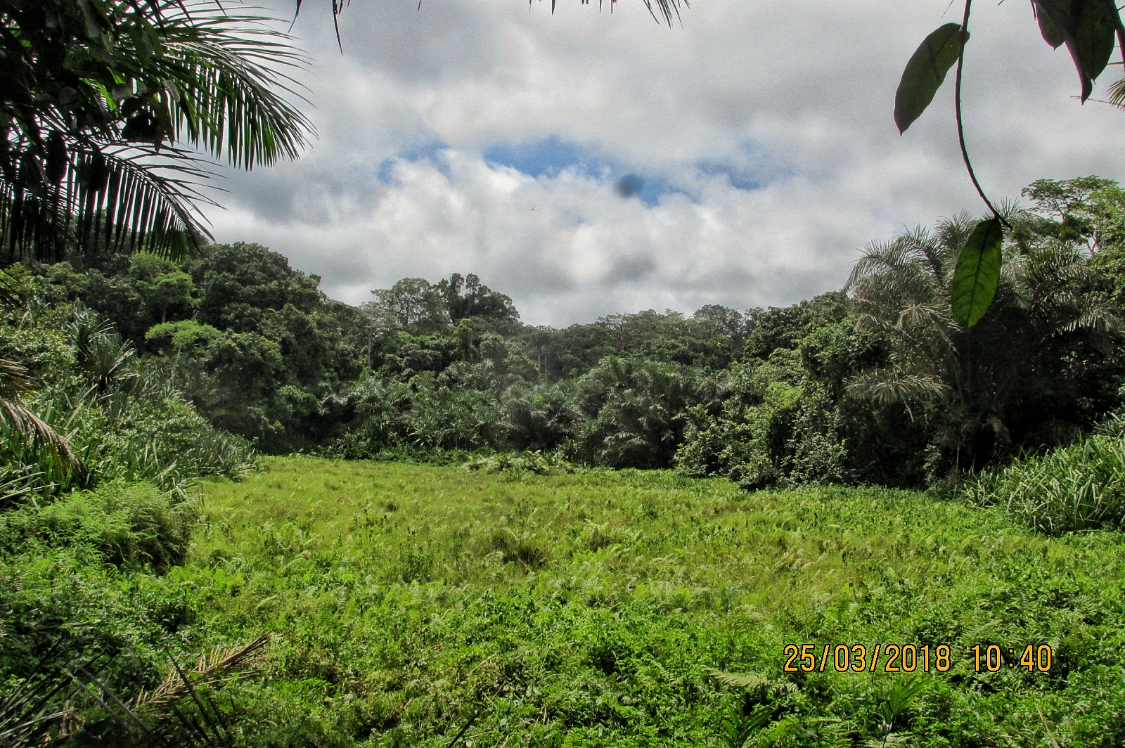 Ngoyla Fauna Reserve. Original photo by Jean Paul Belinga, post processing by Gabor Csata.